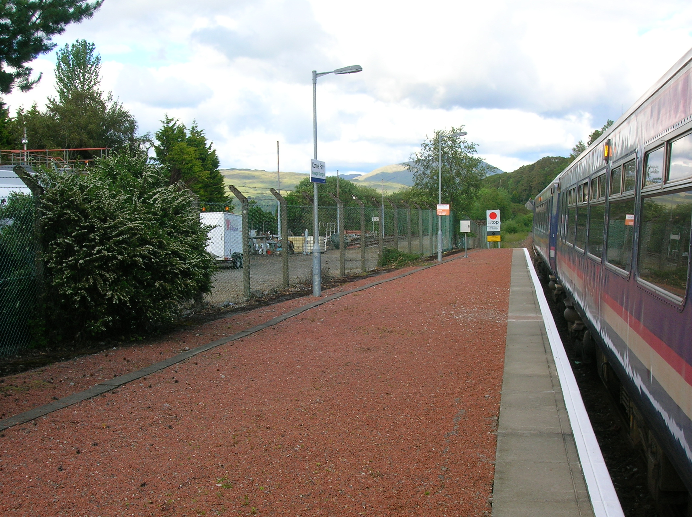 Taynuilt railway station looking towards Crianlarich, Oban line, Scotland.